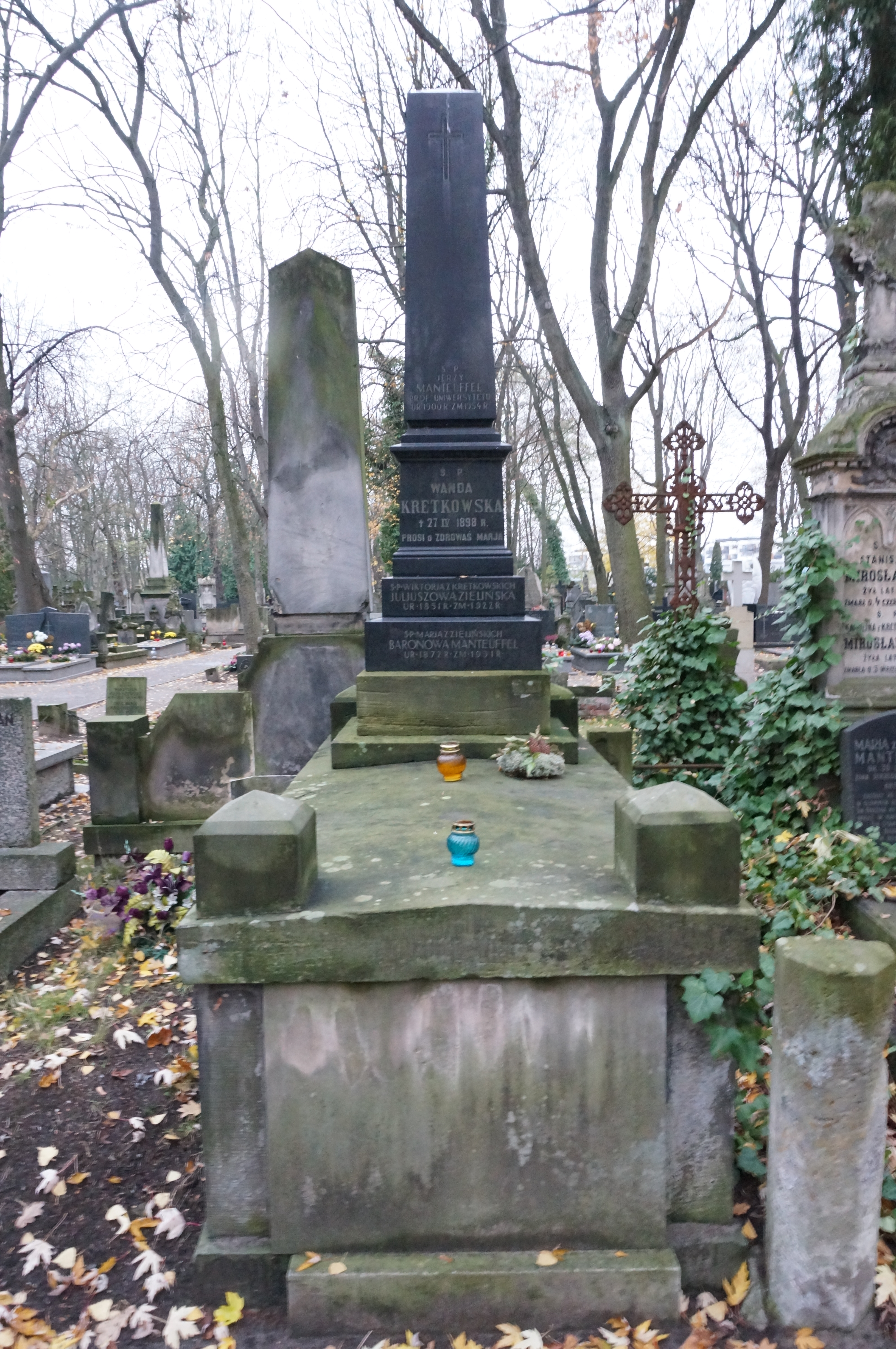 The grave of Jerzy Manteuffel at the Powązki Cemetery (section 67, row 3, grave 28)